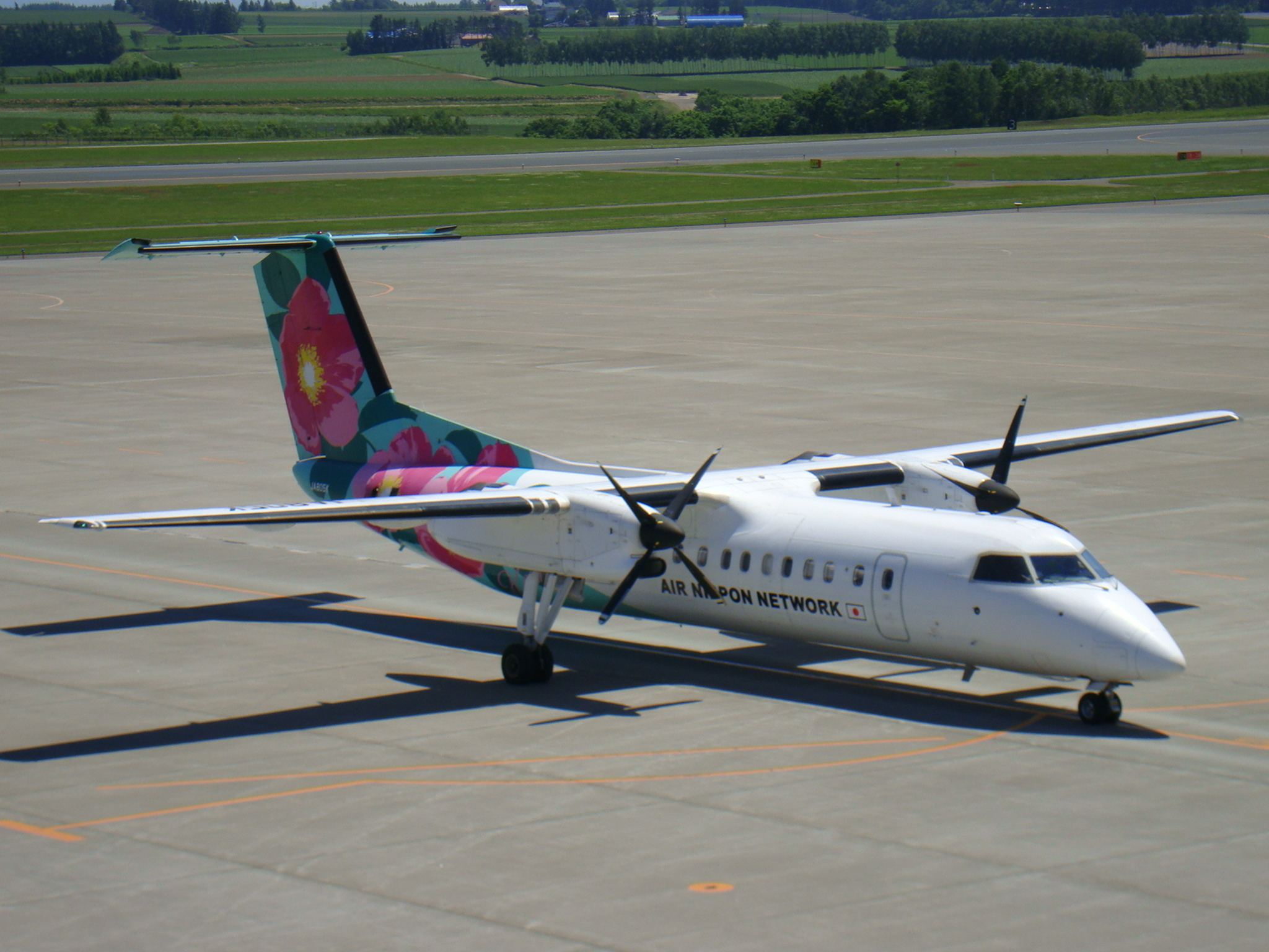 All Nippon Airways(Air Nippon Network) Bombardier Dash8 Q300 JA805K